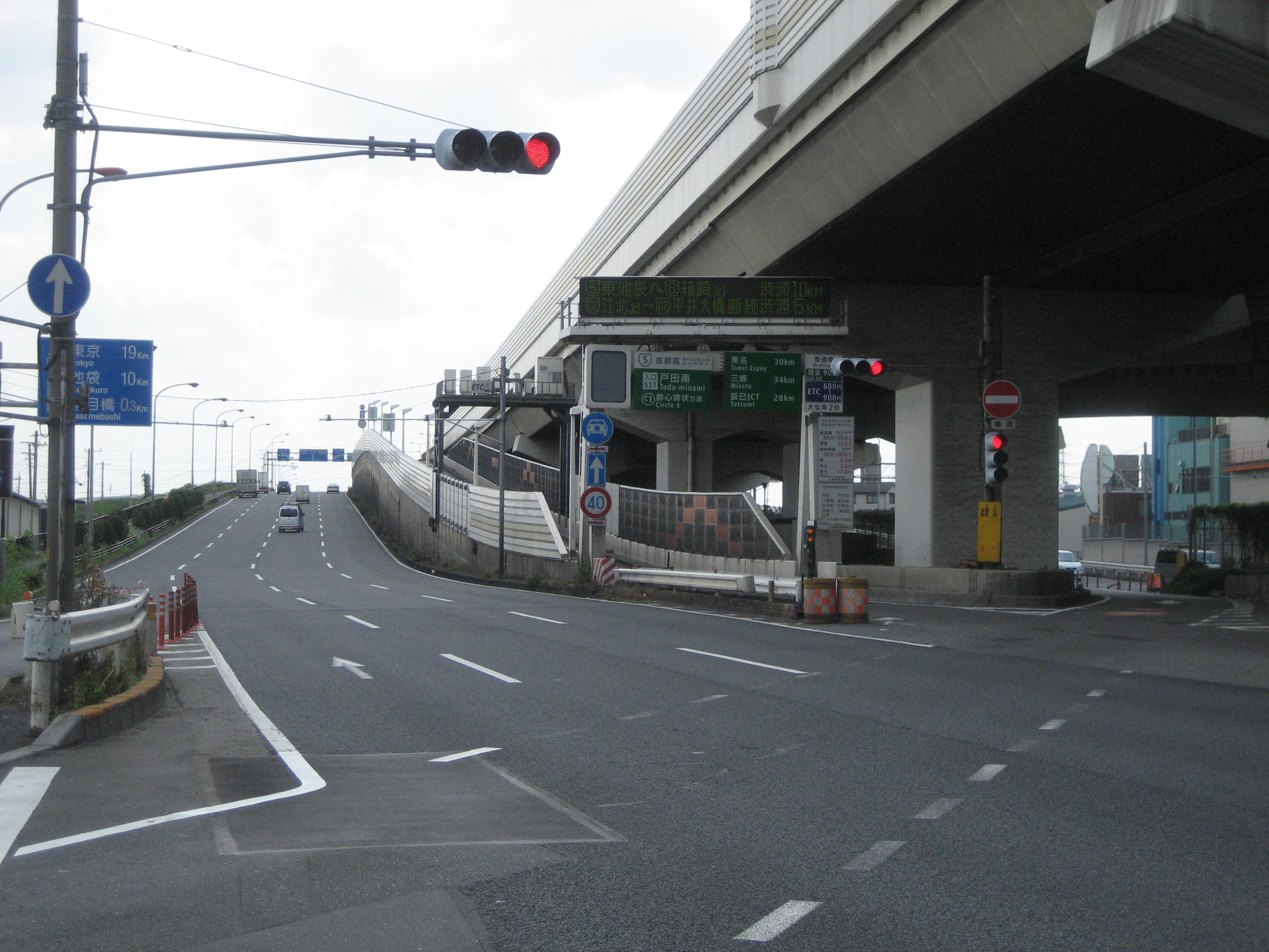 Toda-minami Interchange on the Metropolitan Expressway Route 5